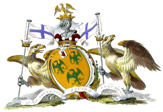 Source: Catton's English Peerage, 1790